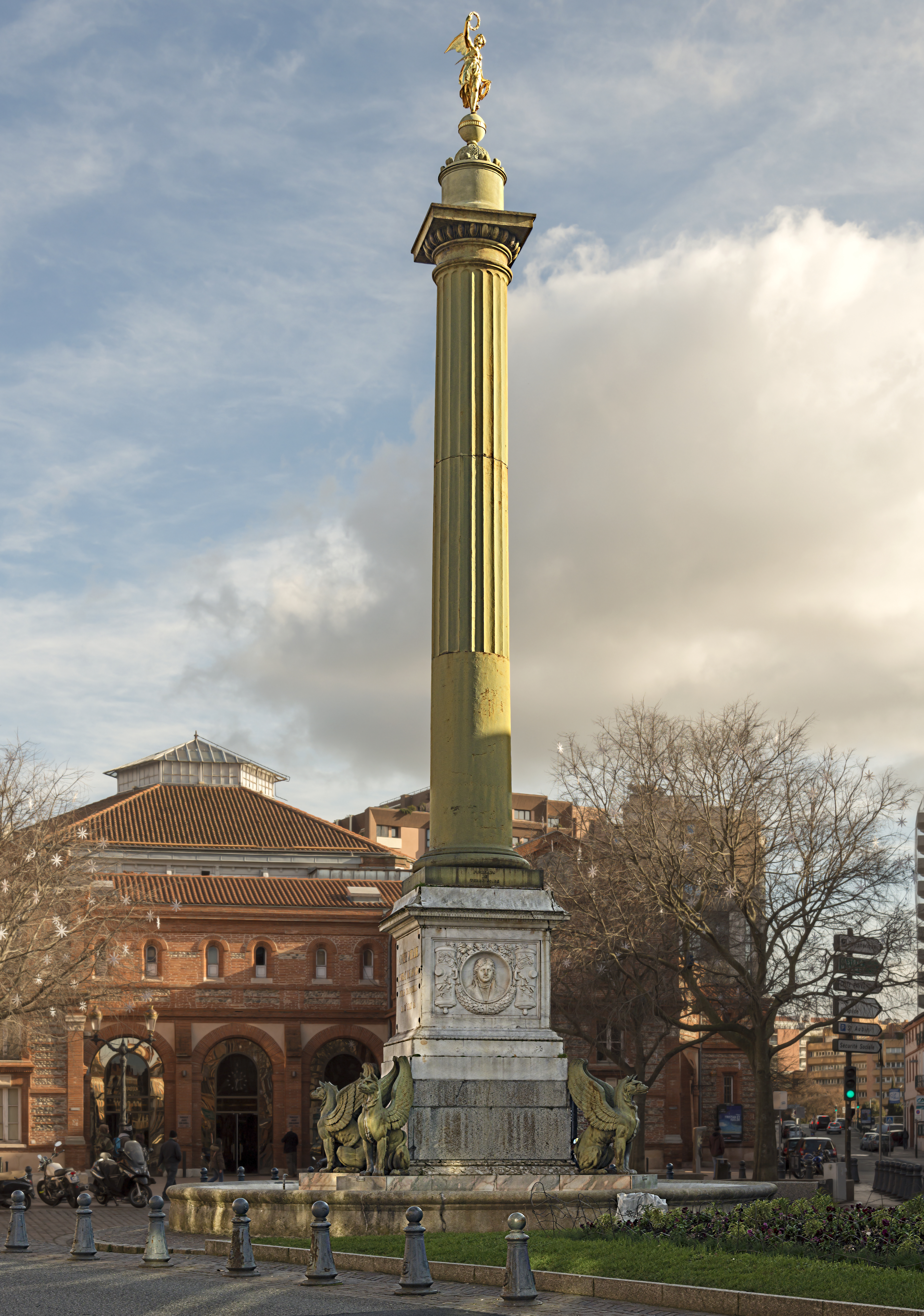 Column Dupuy up in Toulouse. The fountain was designed by Urbain Vitry; it is dedicated to Martin Dominique Dupuy. Marbles sculptures by Griffoul Dorval. At the top the "Lady Tholose" Allegory of the city of Toulouse, is a copy of Renaissance bronze produced in 1544 by Jean Rancy.